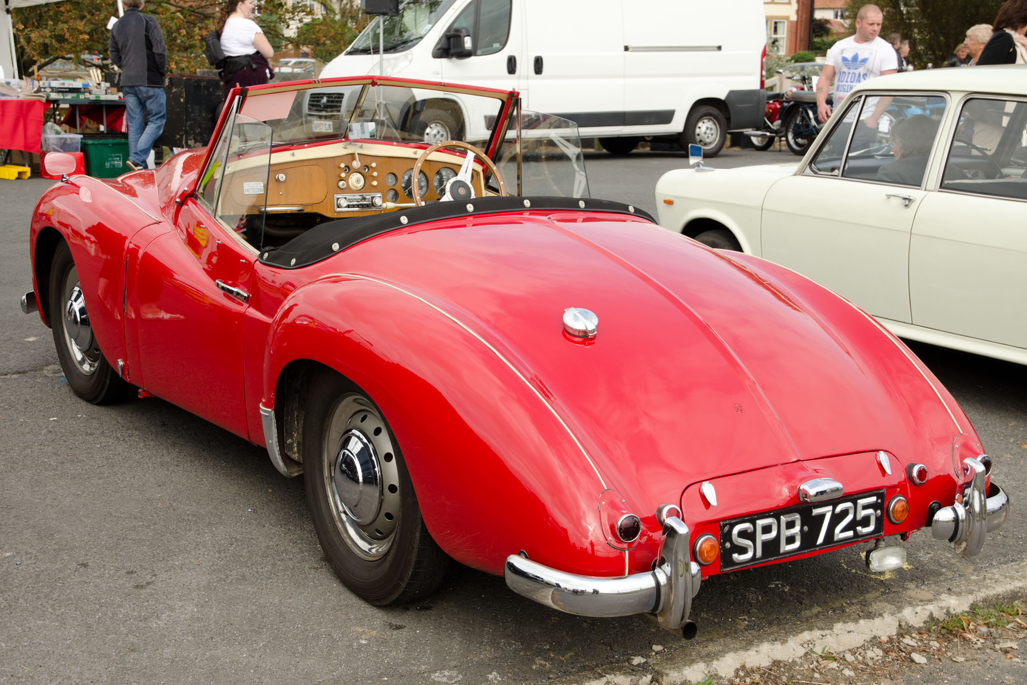 1952 Jowett Jupiter (DVLA) first registered 12 September 1952, 1486 cc Lytham Classic Car Show 14/09/2014